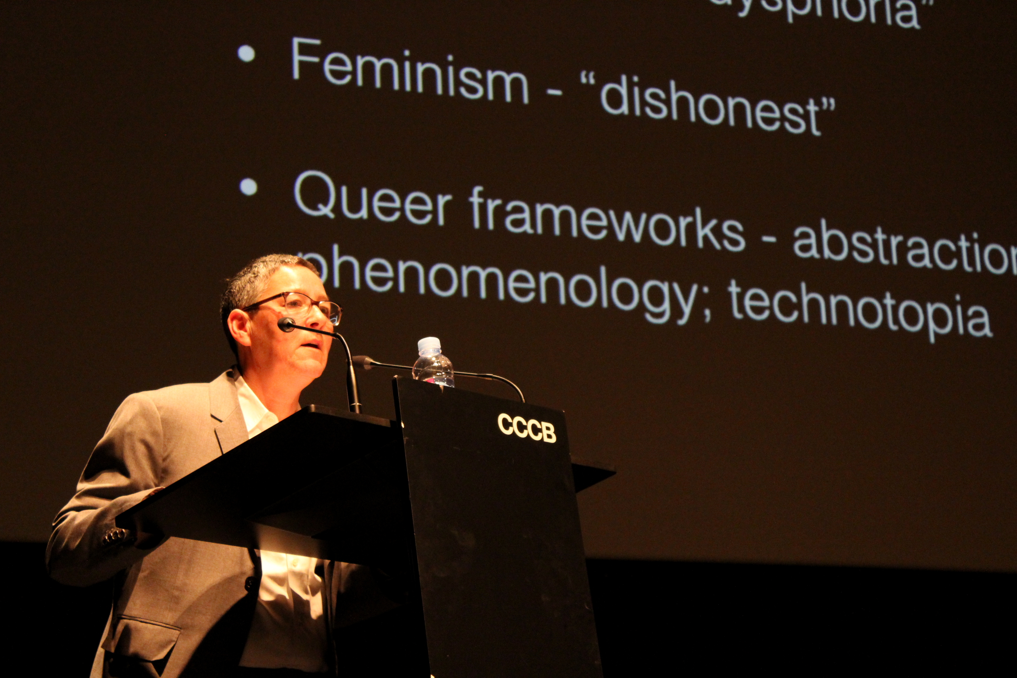 Jack Halberstam giving the conference "Trans* Bodies", presented by LGBT rights activist + Miquel Missé Sánchez, at the CCCB (Center for Contemporary Culture of Barcelona) on Wednesday, February 1, 2017.